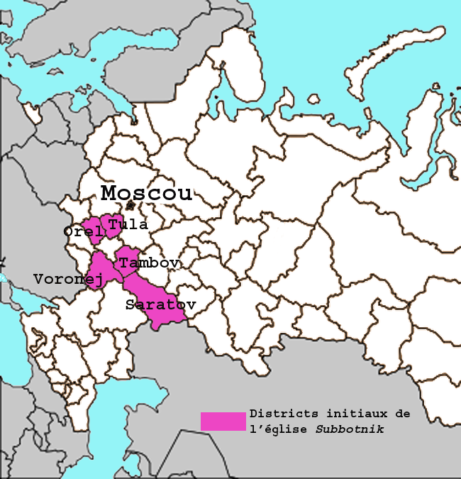 First areas of the subbotnik heresie, at the begining of the XIXe century.